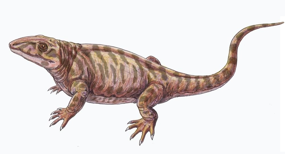 V. brevirostris.